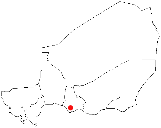 Maradi, Niger Location Map; created with the GIMP. Made by User:Acntx.